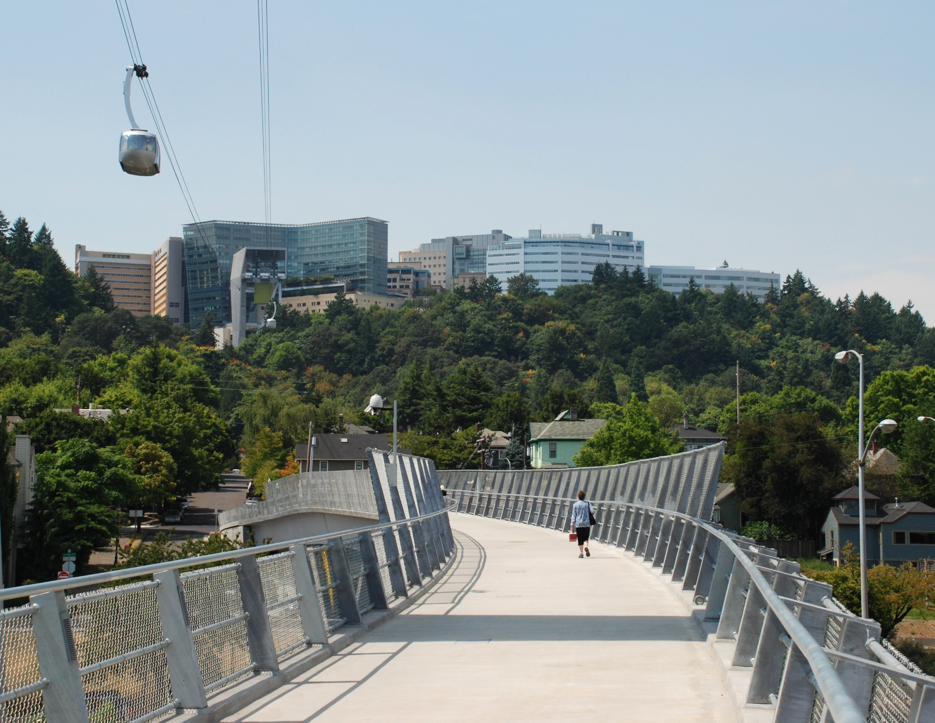 Looking west on the Gibbs Street Pedestrian Bridge (over Interstate 5) in Portland, Oregon, toward Marquam Hill and Oregon Health & Science University. Above, one of the cabins of the Portland Aerial Tram – connecting OHSU with the South Waterfront – is passing. The bridge's metal fence is taller where the bridge is directly over the I-5 freeway. The bridge opened in July 2012.